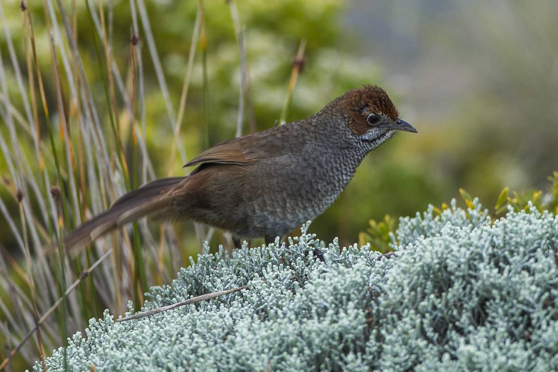 Rufous Bristlebird - Port Campbell - Victoria_S4E5020